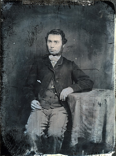 1 photograph : glass, wet collodion positive, b&w ; 16.5 x 12 cm.